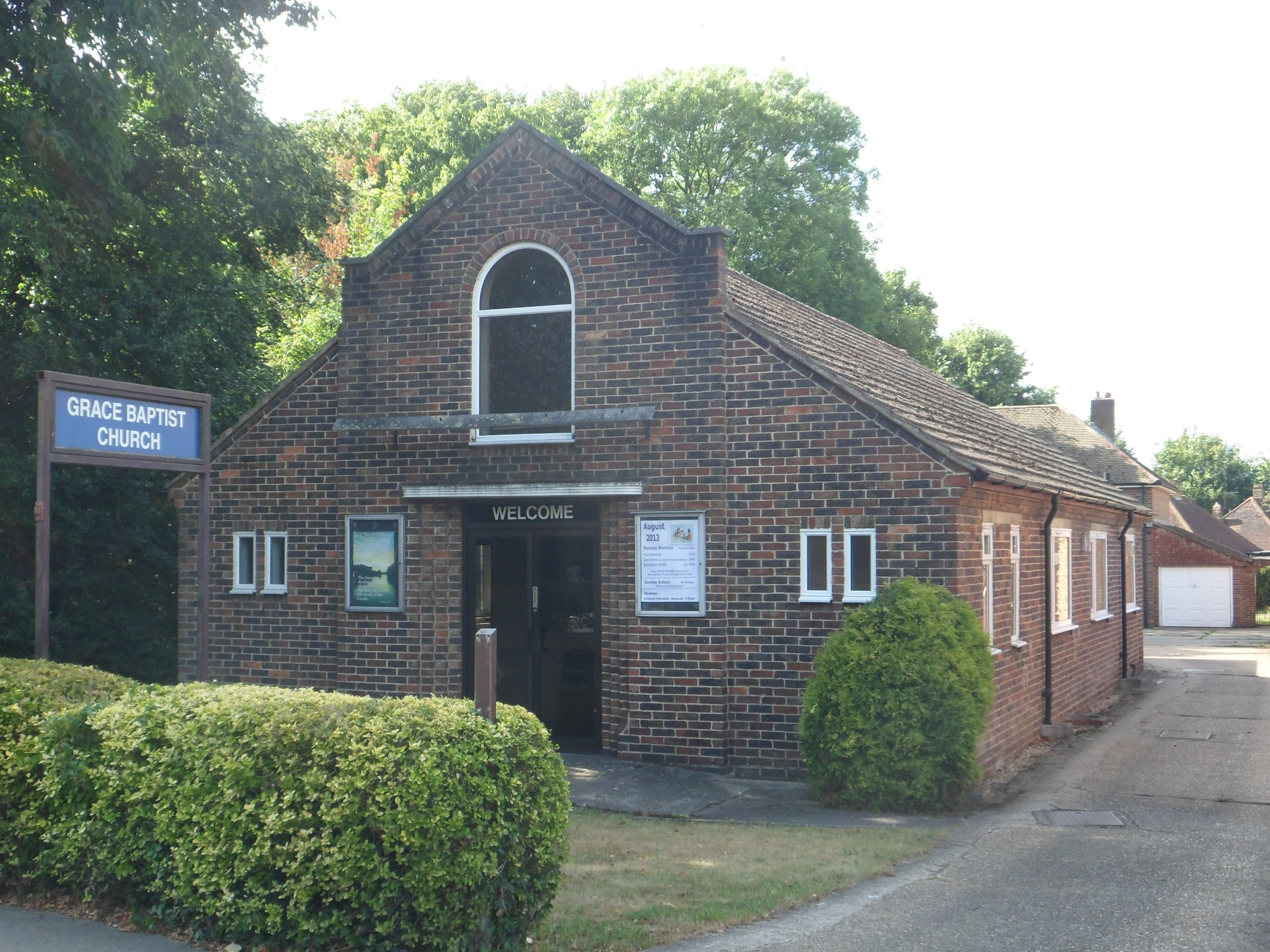 Grace Baptist Church Epsom, Dorking Road, Epsom, Epsom and Ewell Borough, Surrey, England. Formerly Salem Chapel and Dorking Road Baptist Church.